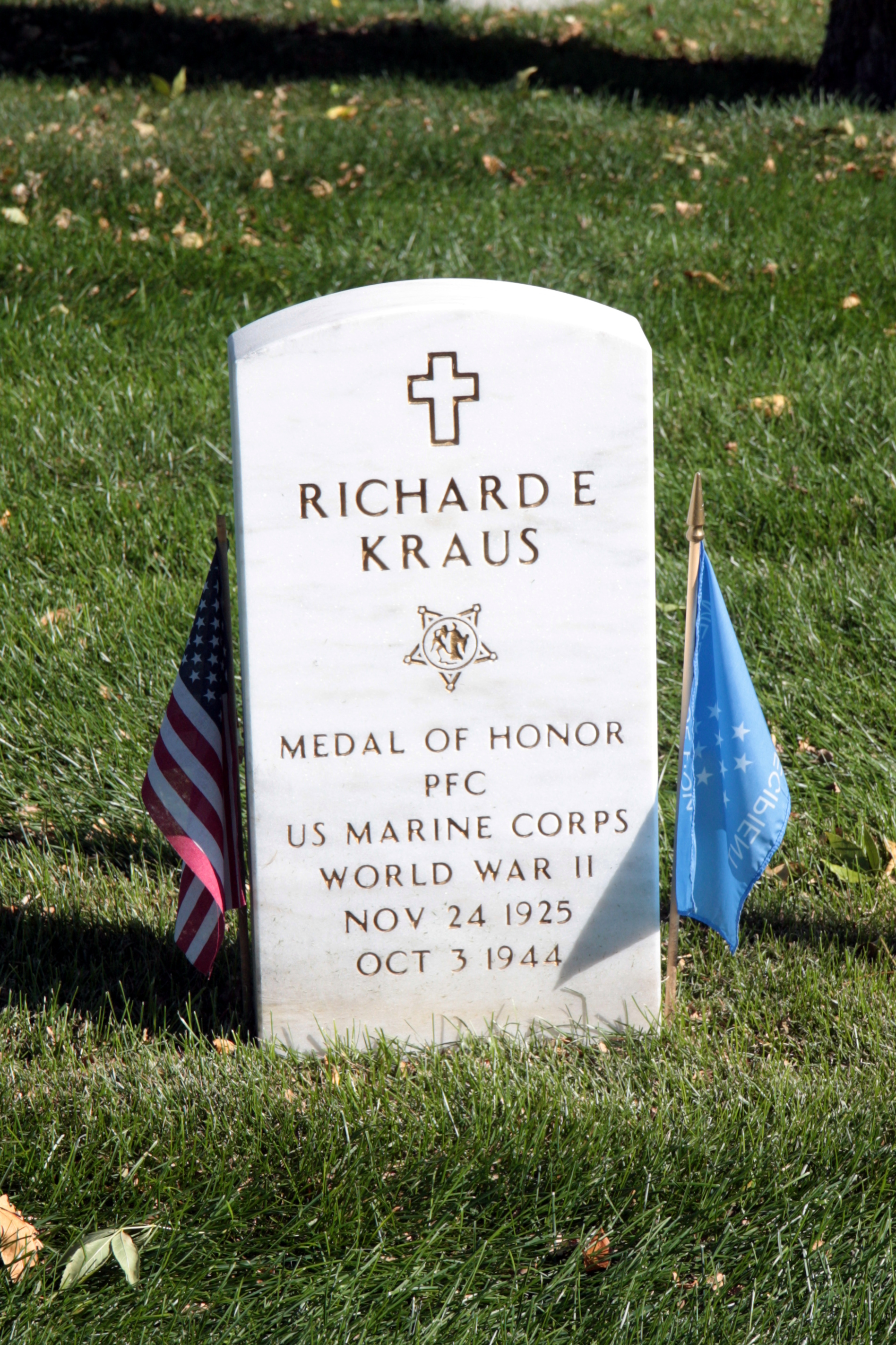 Arlo L Olson headstone in Fort Snelling National Cemetery